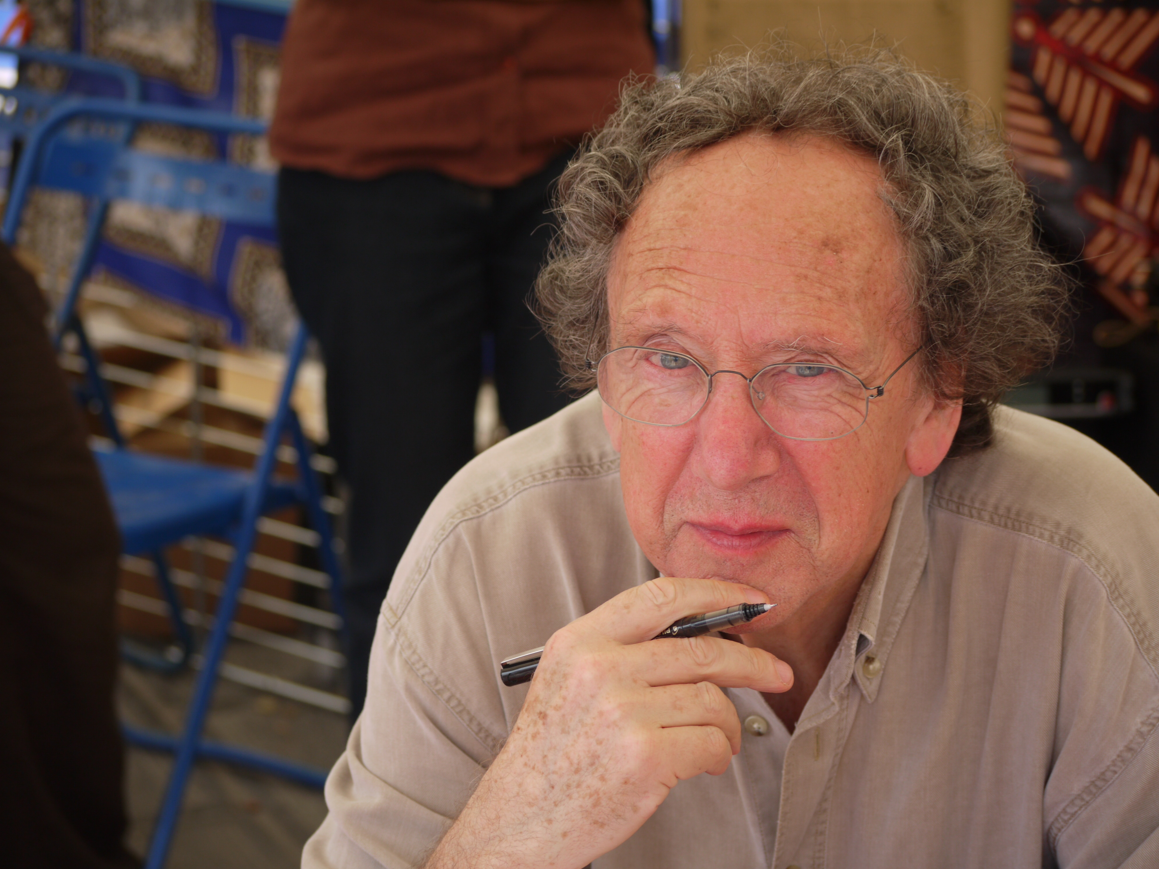 Photograph taken during the 2009 edition of the 'Comédie du Livre' of Montpellier, France. Personality rights warningAlthough this work is freely licensed or in the public domain, the person(s) shown may have rights that legally restrict certain re-uses unless those depicted consent to such uses. In these cases, a model release or other evidence of consent could protect you from infringement claims.